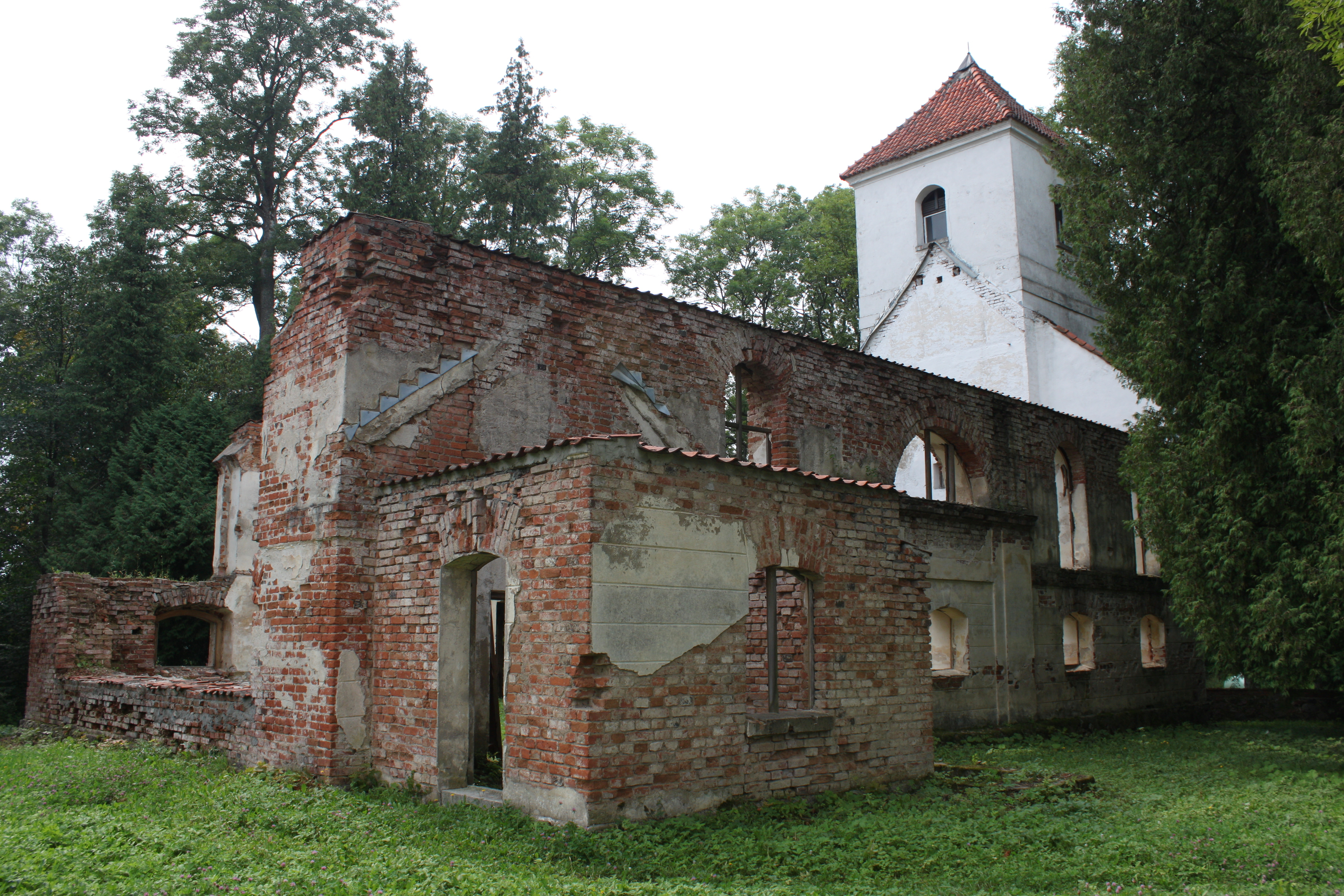 Evangelical church in Kobułty.